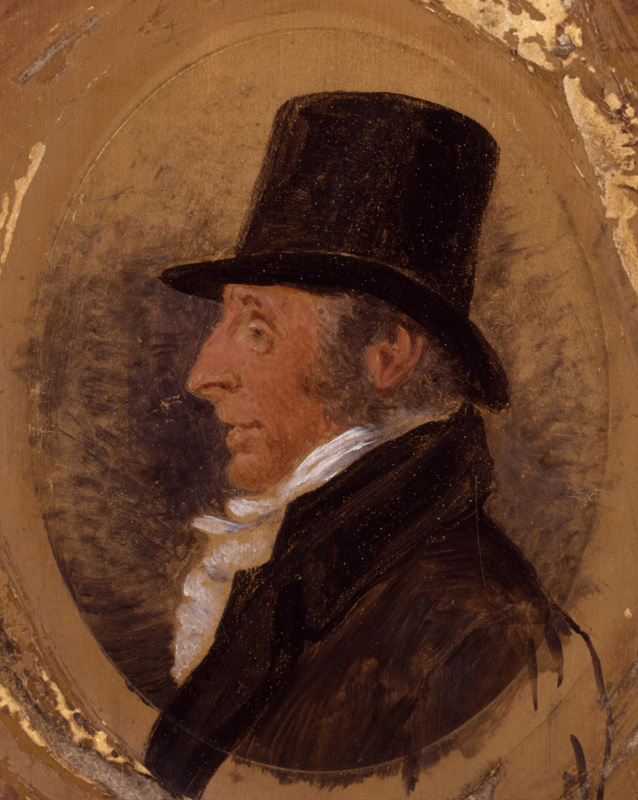 Portrait of Sir Tatton Sykes, 4th Baronet (1772–1863), English baronet.